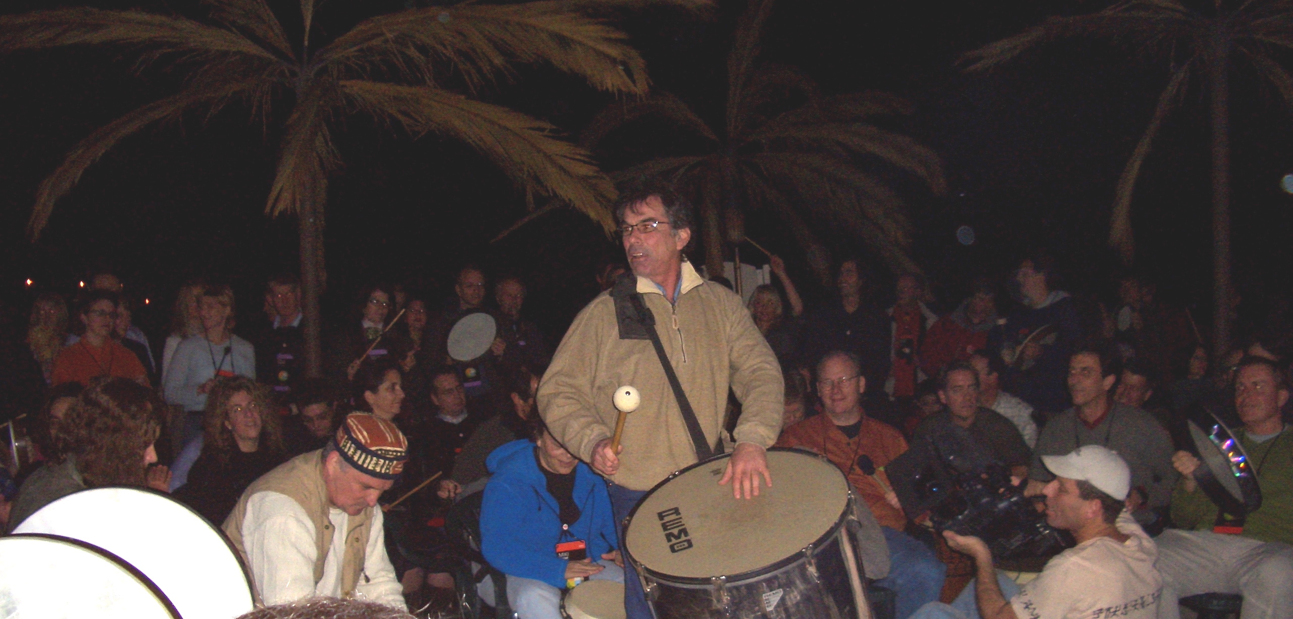 Mickey Hart leading a drum circle "Mickey Hart, the Grateful Dead drummer, led us in a drumming circle on the beach. He described the trance rituals from West Africa as handshaking to the archaic. Today, my fingers have the oddest bruises."